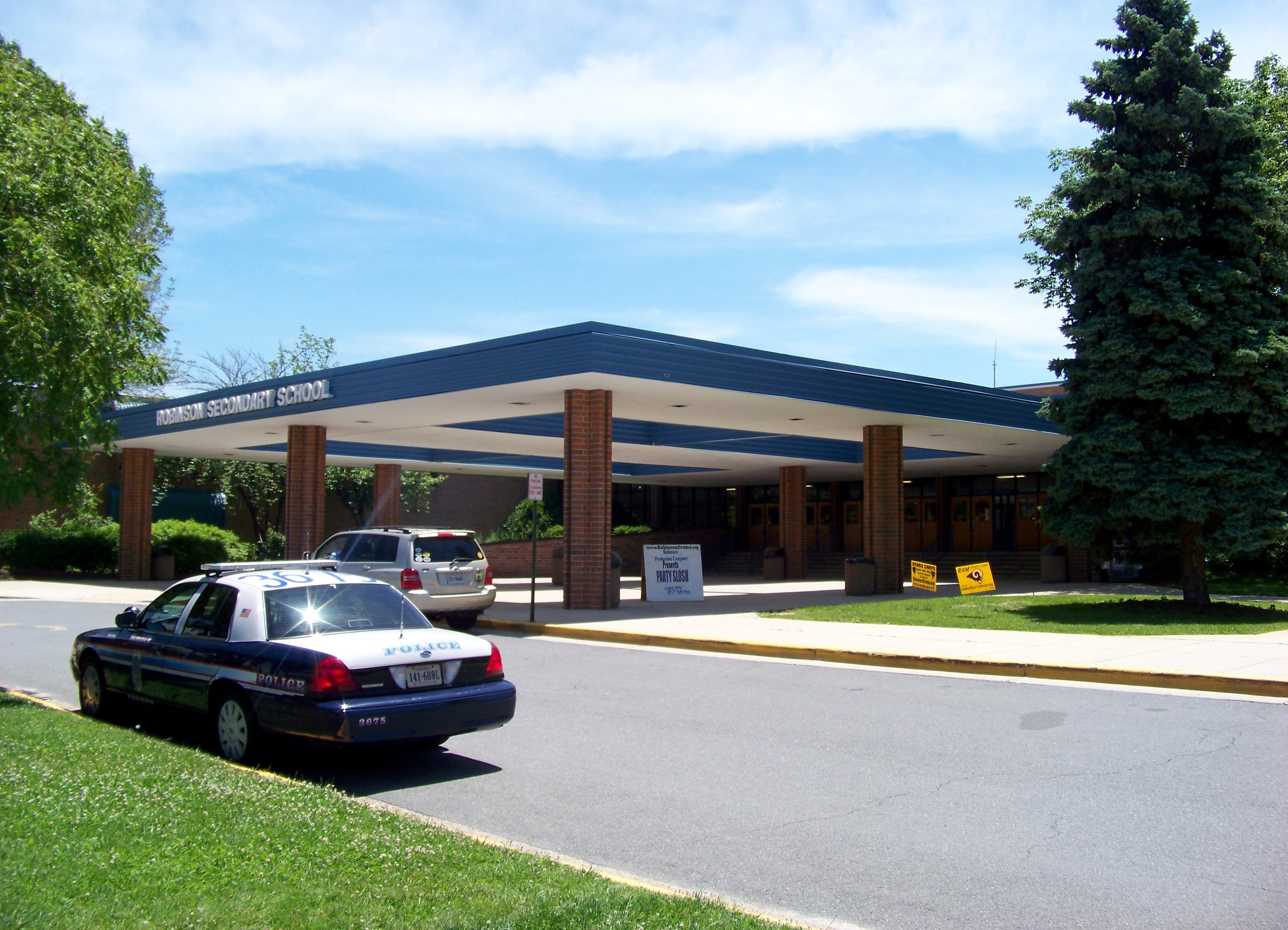 Robinson Secondary School